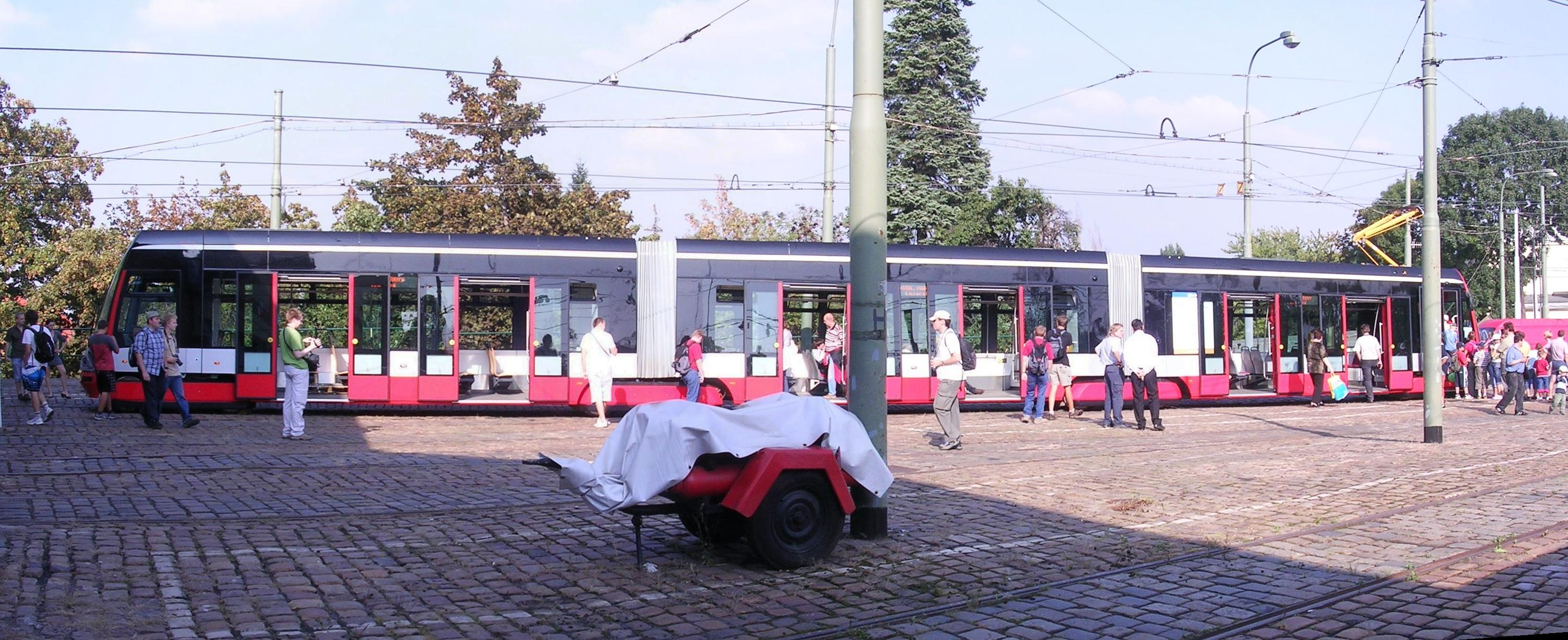 Střešovice, Prague, the Czech Republic. Open Doors Day in Střešovice tram depot and transport museum. Tram Škoda 15T.